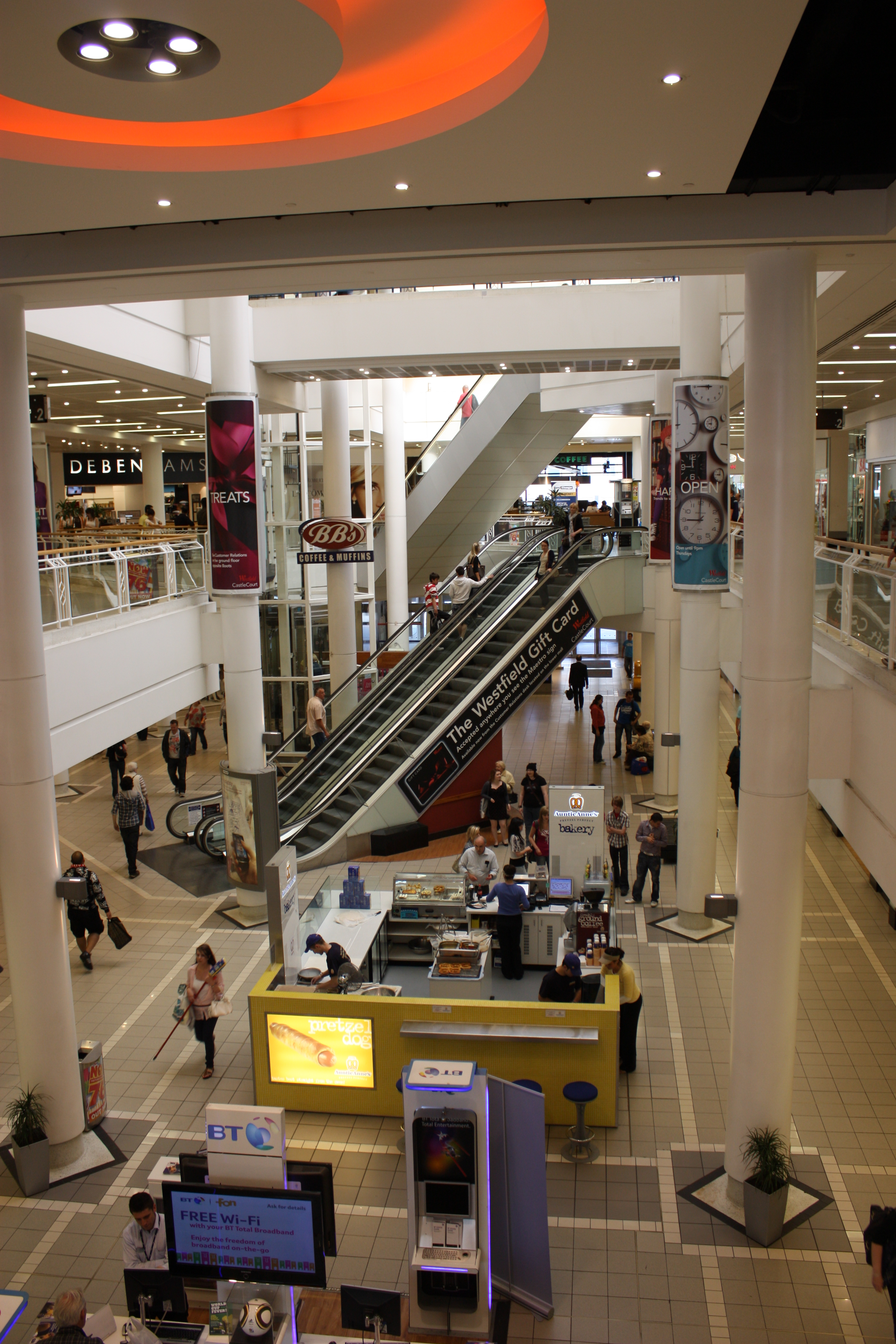 Castle Court shopping centre, Royal Avenue, Belfast, Northern Ireland, July 2010